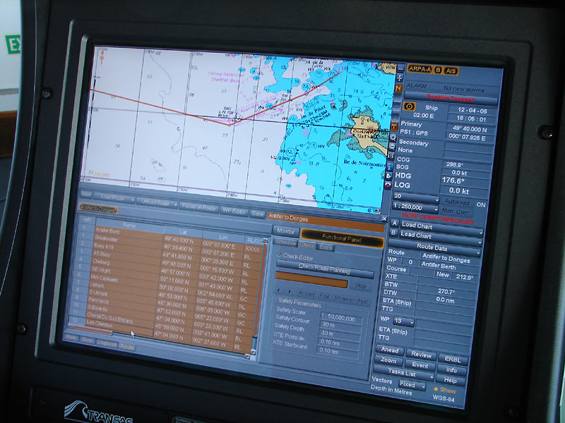 Navigation system used on an oil tanker : electronic chart.